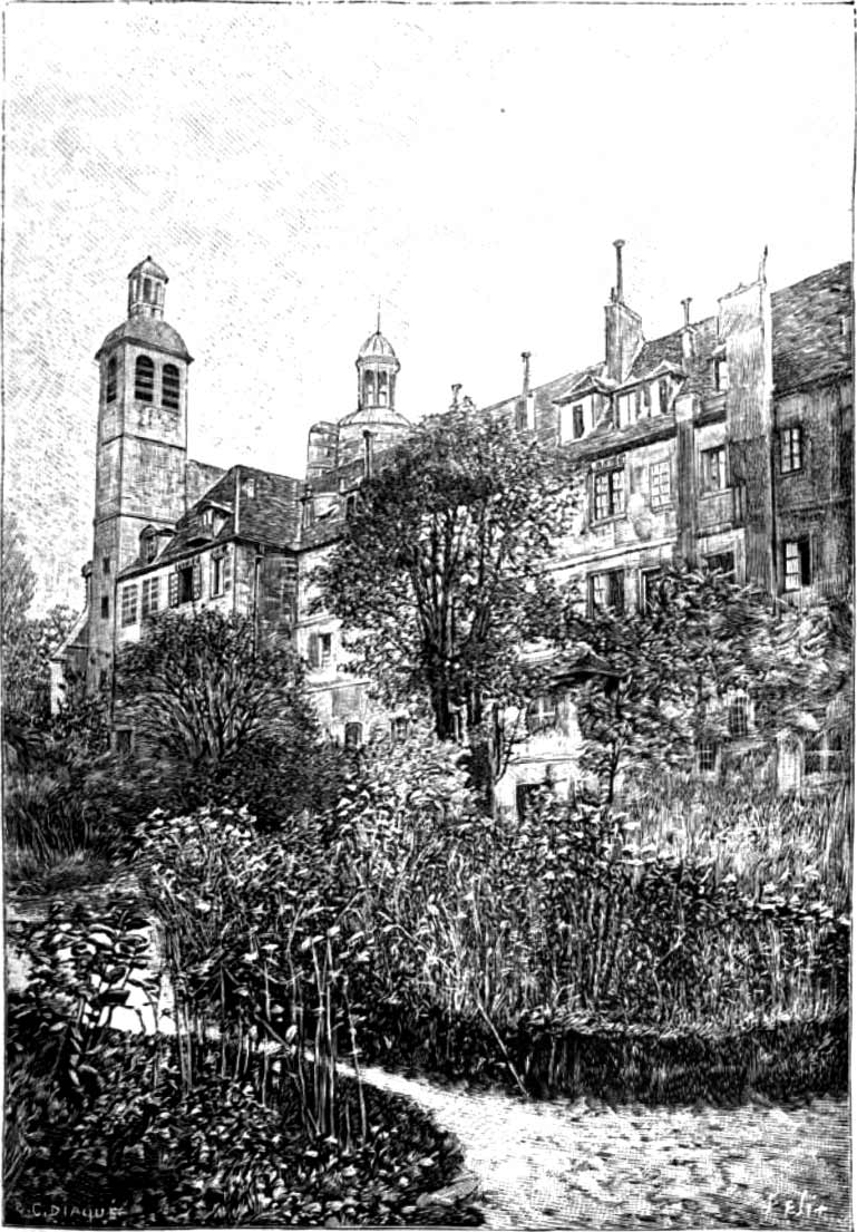 The Garden of the Carmes Doorstep in Paris, France where refractory priests were massacred on Sunday, September 2, 1792, in what would later be called the September Massacres..